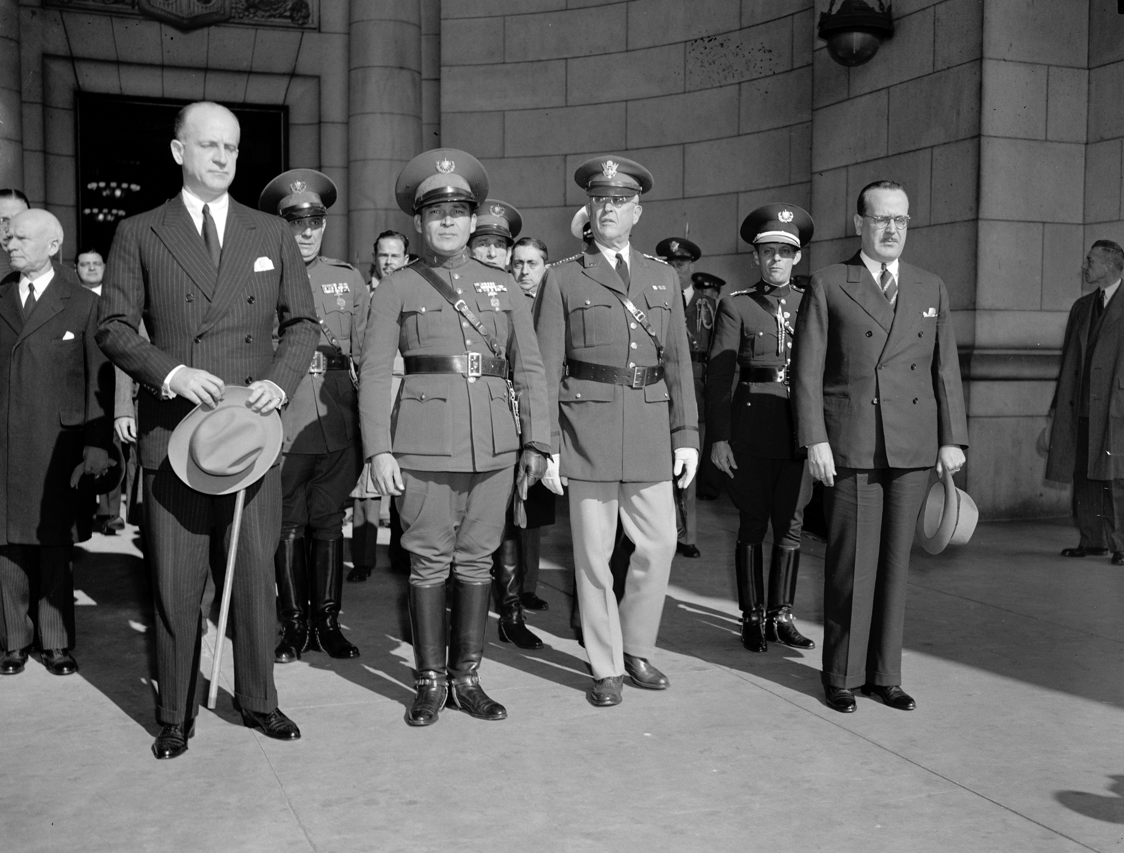 "The Dictator from Cuba arrives. Washington, D.C., Nov. 10. Col. Fulgencio Batista, Cuba's Dictator, arrived in Washington today, he was met at the Union Station by General Malin Craig, Chief of Staff of the United States Army, who invited the Colonel to the Capitol, and Undersecretary of State Sumner Welles, as well as a hundred Cubans who bowed to the Colonel as he passed thru Union Station, left to right. Sumner Wells, Batista, Craig, and the Ambassador from Cuba Dr. Pedro Fraga, 11/10/38" (Title from unverified caption data received with the Harris & Ewing Collection.)